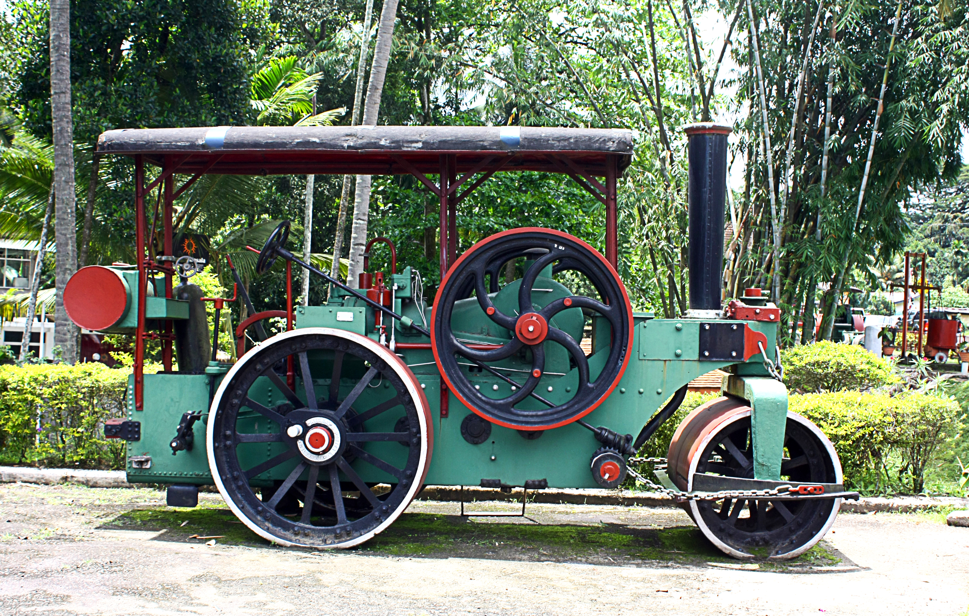 Steam-powered roller (Steamroller) at Highway museum complex in Kiribathkumbura, Kandy